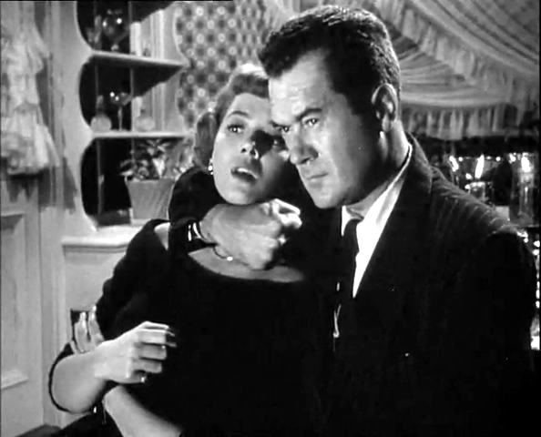 Screenshot from trailer for the movie In a Lonely Place (1950), featuring stars Gloria Grahame and Humphrey Bogart. Jeff Donnell as Sylvia Nicolai (left) and Frank Lovejoy as Det. Sgt. Brub Nicolai (right).